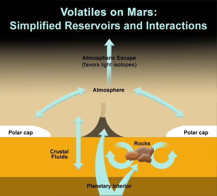 11.02.2012 Volatiles on Mars This illustration shows the locations and interactions of volatiles on Mars. Volatiles are molecules that readily evaporate, converting to their gaseous form, such as water and carbon dioxide. On Mars, and other planets, these molecules are released from the crust and planetary interior into the atmosphere via volcanic plumes. On Mars, significant amounts of carbon dioxide go back and forth between polar ice caps and the atmosphere depending on the season (when it's colder, this gas freezes into the polar ice caps). New results from the Sample Analysis at Mars, or SAM, instrument on NASA's Curiosity rover show that the lighter forms of certain volatiles, also called isotopes, have preferentially escaped from the atmosphere, leaving behind a larger proportion of heavy isotopes. Scientists will continue to examine this phenomenon as the mission continues, looking for isotope signatures in rocks. One question they plan to address is: To what degree have atmospheric volatiles been incorporated into rocks in the crust through the action of fluids, perhaps in the distant past? Image Credit: NASA/JPL-Caltech